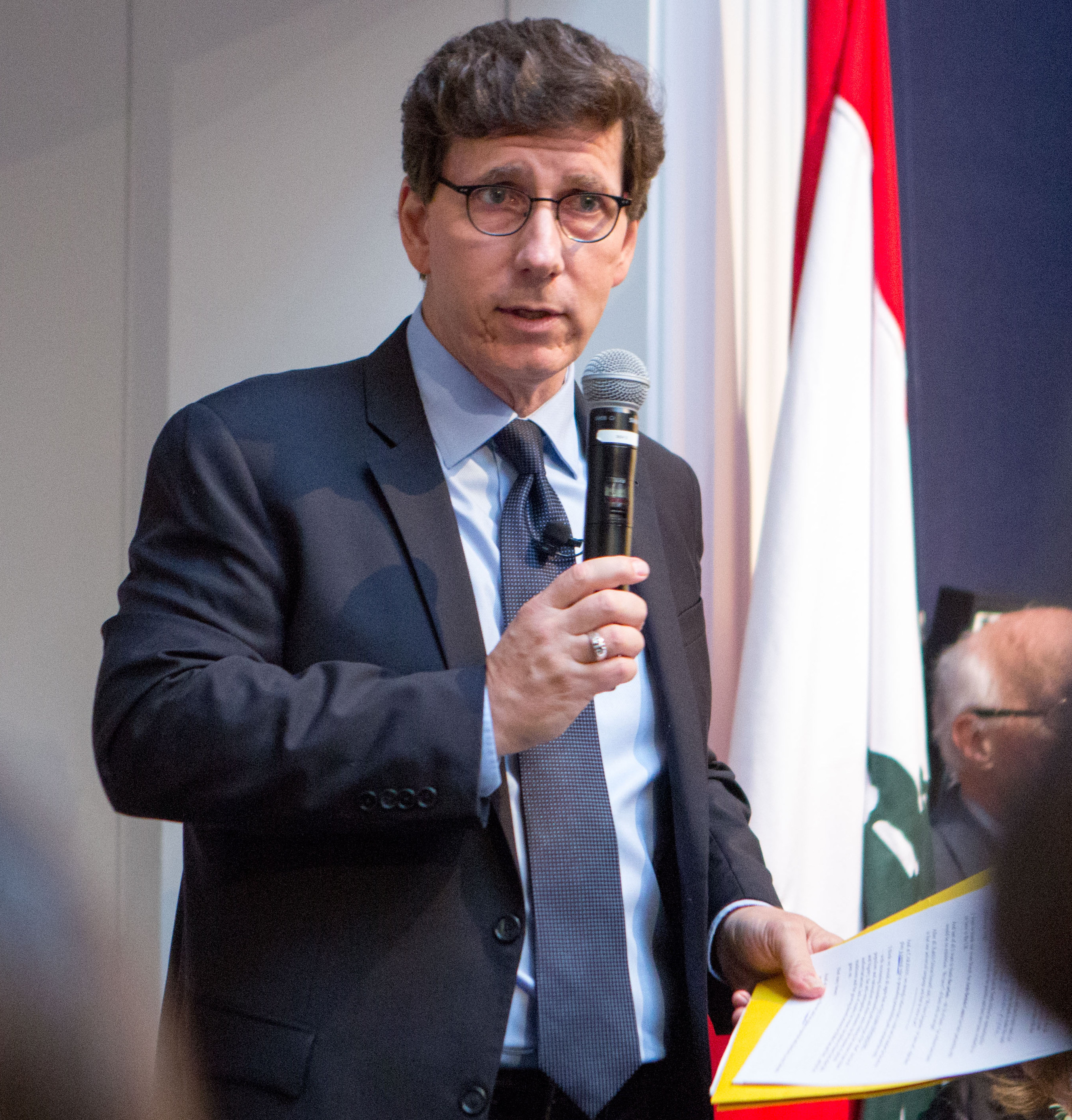 Paul-Gordon Chandler speaking at Sotheby's in London in 2018.